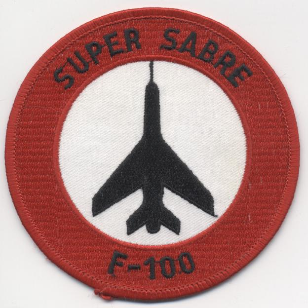 Scan of a Royal Danish Air Force F-100 Super Sabre patch